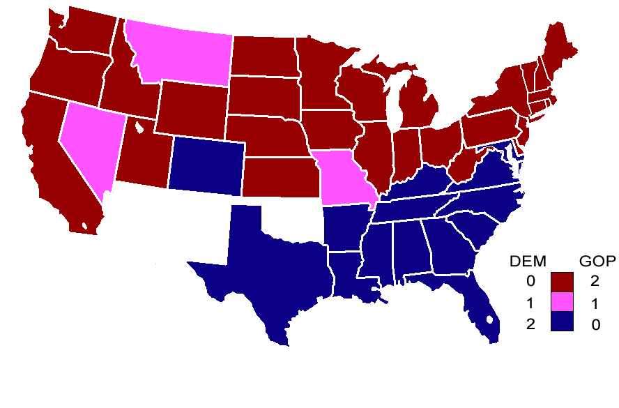 Map showing party composition of the United States Senate at the beginning of the 59th Congress